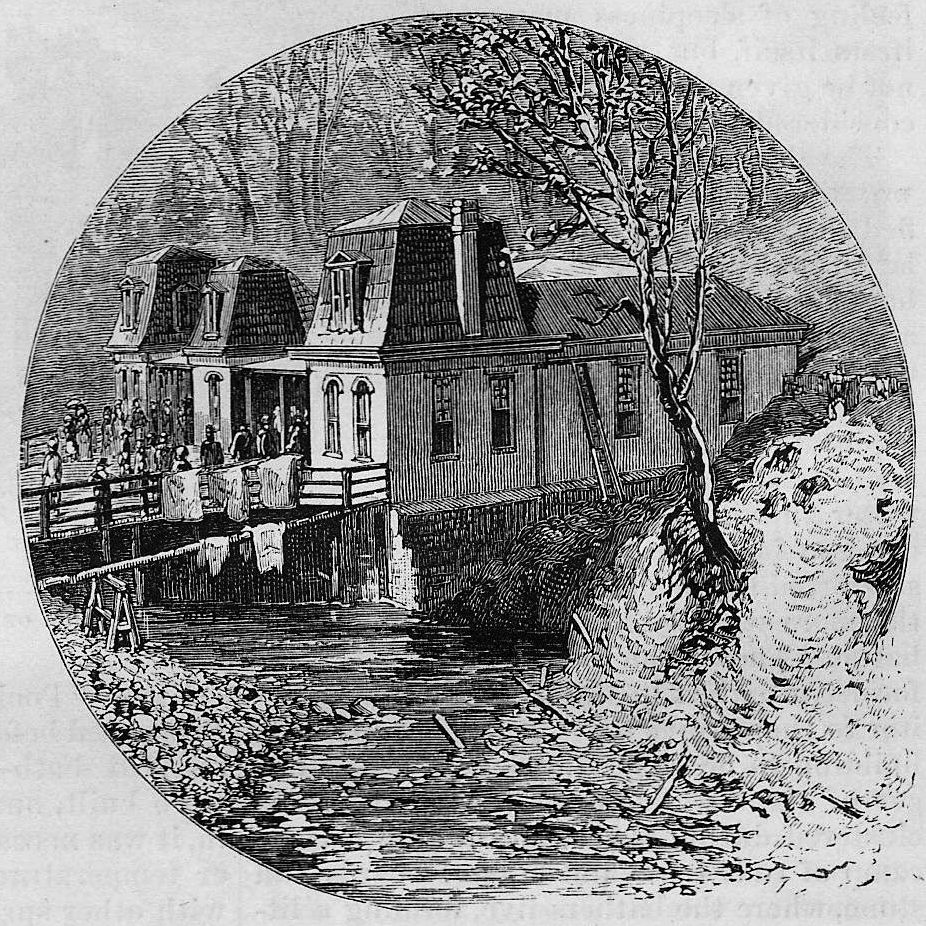 Big Iron Bath-house